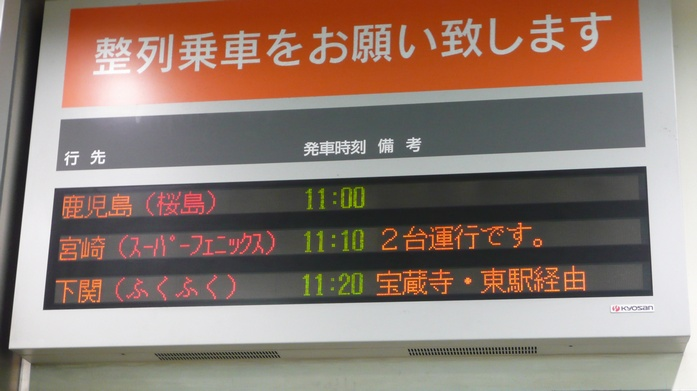 Information display at Nishitetsu Tenjin Bus Center showing that the Phoenix-go service will be operated with 2 cars